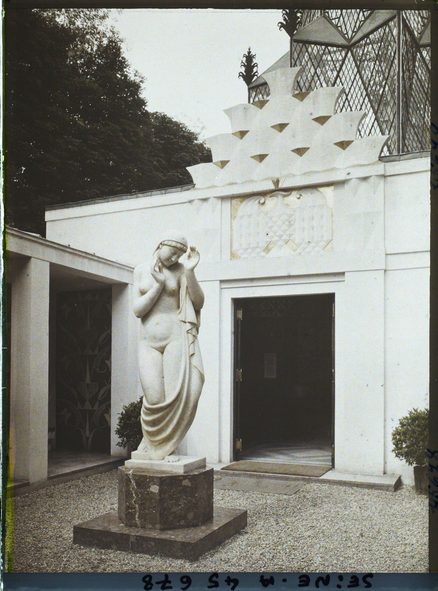 Polish pavilion, example of art déco architecture (architects Józef Czajkowski, Wojciech Jastrzębowski and sculptor Hernyk Kuna and painters Tadeusz Gronowski, Józef Mehoffer and Zofia Stryjeńska won Golden Medals in Paris) at International Exhibition of Modern Decorative and Industrial Arts, Paris, 8th of July 1925. This Autochrome Lumière was not colorized. Visible Polish coat of arms and sculpture „Rytm” by Henryk Kuna in the courtyard.